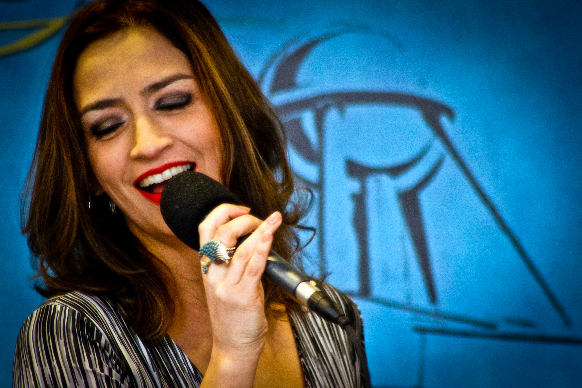 brazilian actress/singer Anna Toledo performing onstage at SESC Pinheiros, Sao Paulo, Brazil